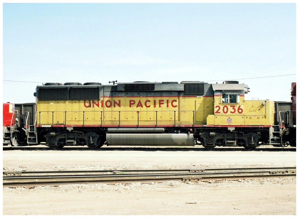 Union Pacific Railroad 2036 EMD GP60